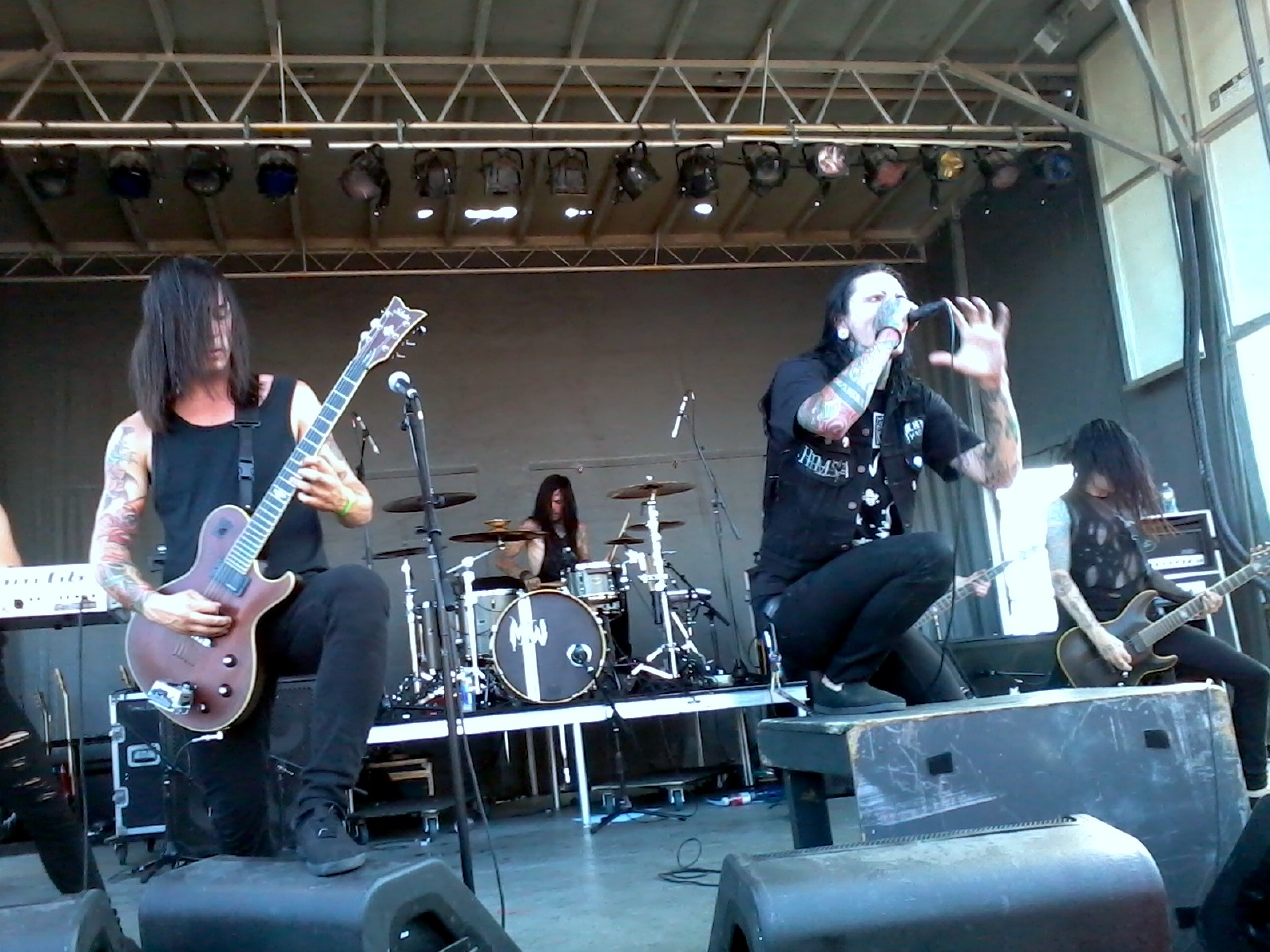 Motionless in White playing in Vegas (2011)